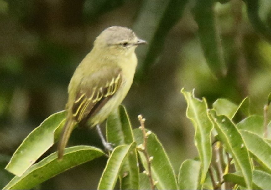 Sacha Lodge - Ecuador